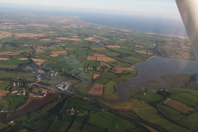 Wellingtonbridge: aerial 2015